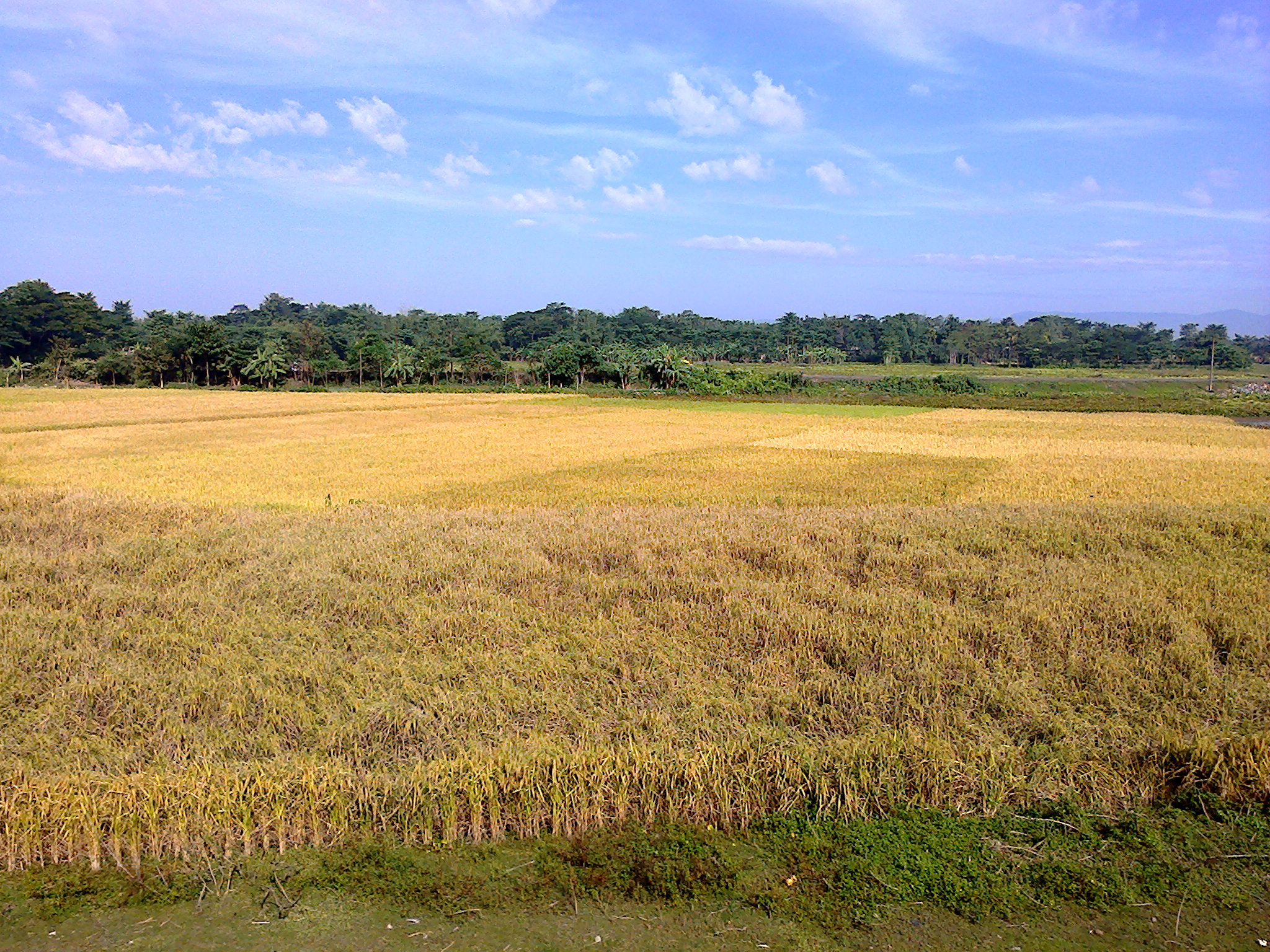 Greenery of Karimganj , predominantly agricultural district